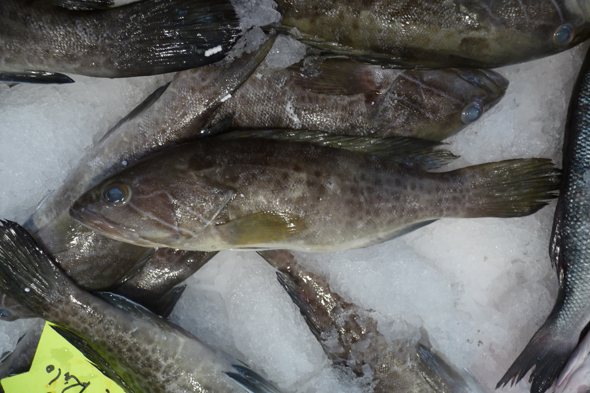 Epinephelus aeneus